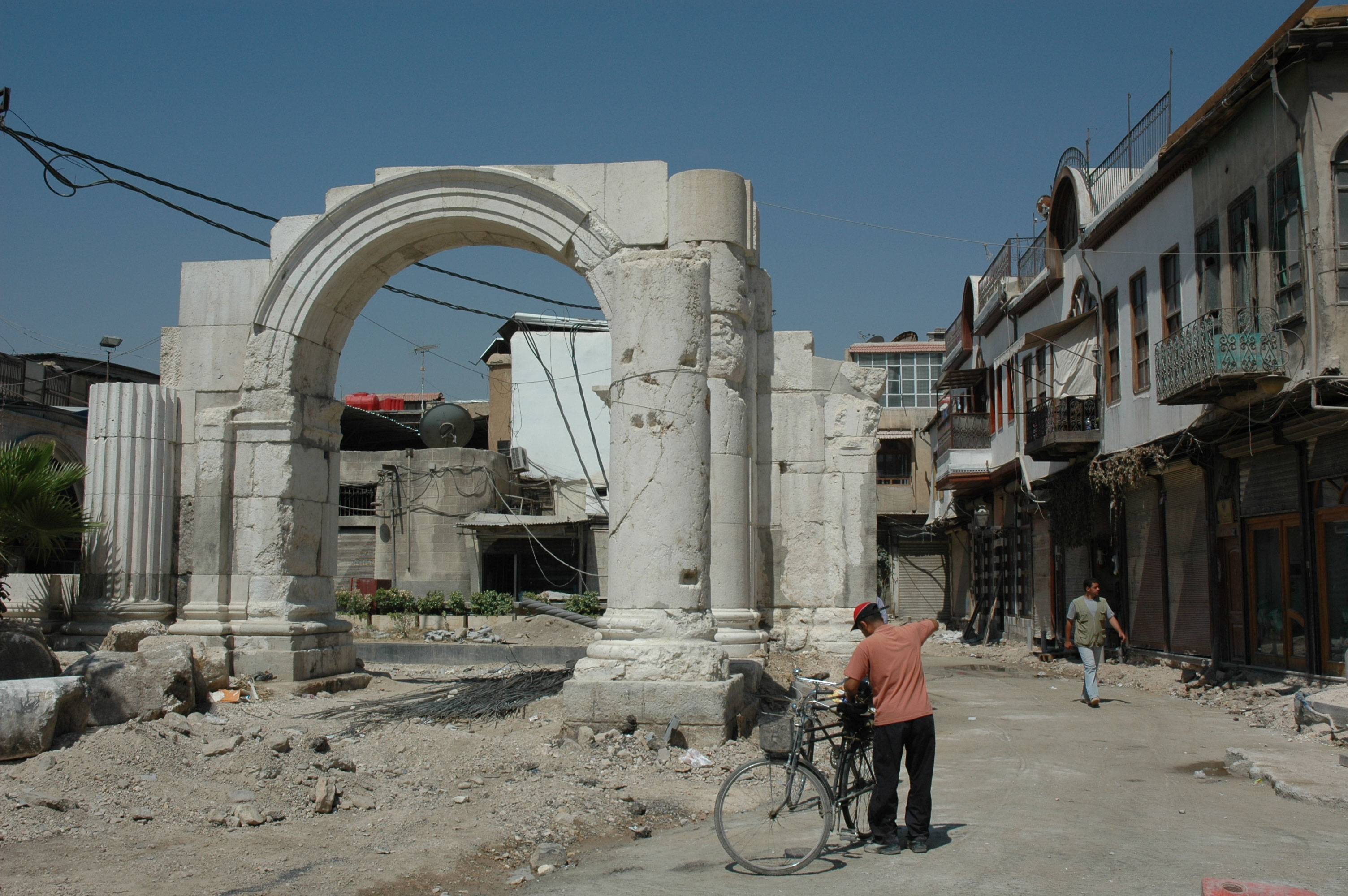 Ancient City of Damascus (Syrian Arab Republic)